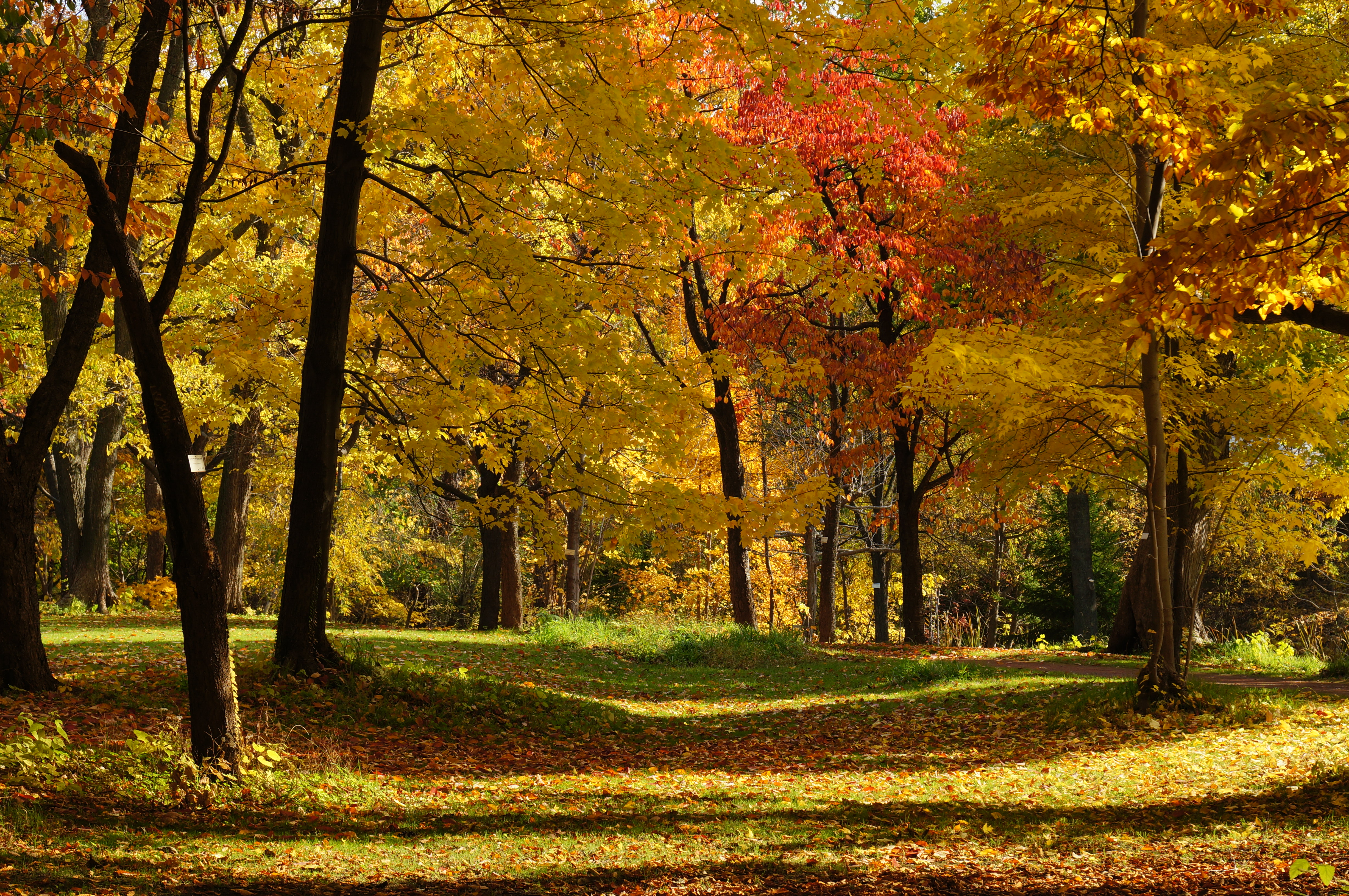 At Hokkaido University Botanical Gardens in Sapporo, Hokkaido prefecture, Japan.